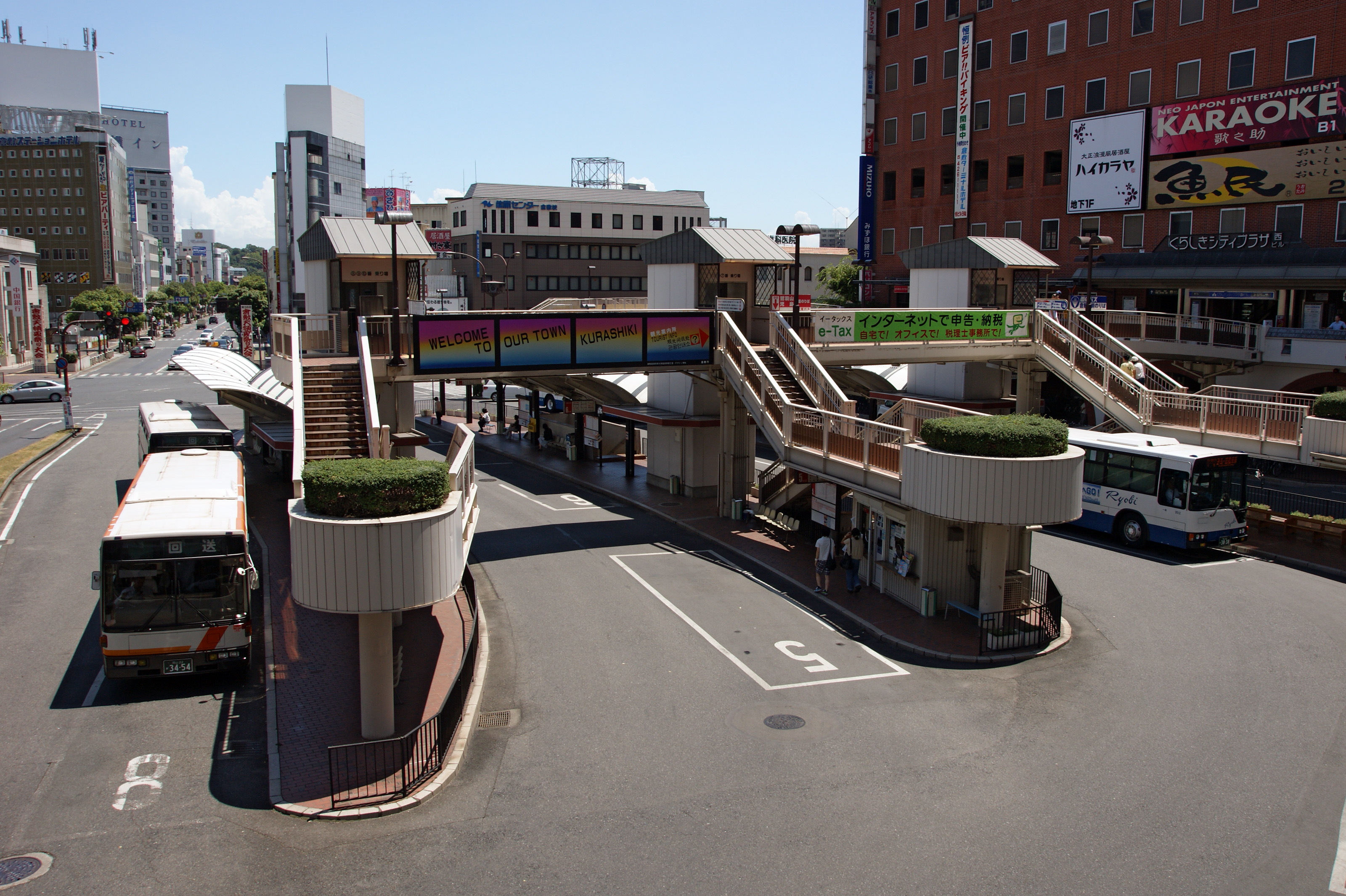 Kurashiki Station South Exit Bus Terminal in Kurashiki, Okayama prefecture, Japan